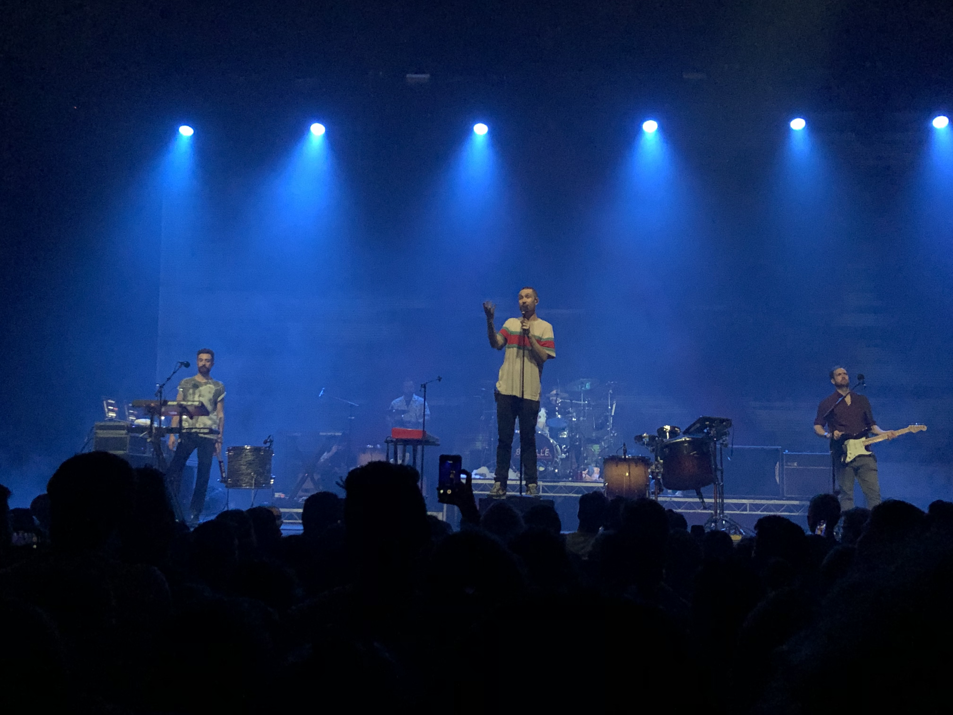 UK band Bastille performing in Sydney in January 2019.